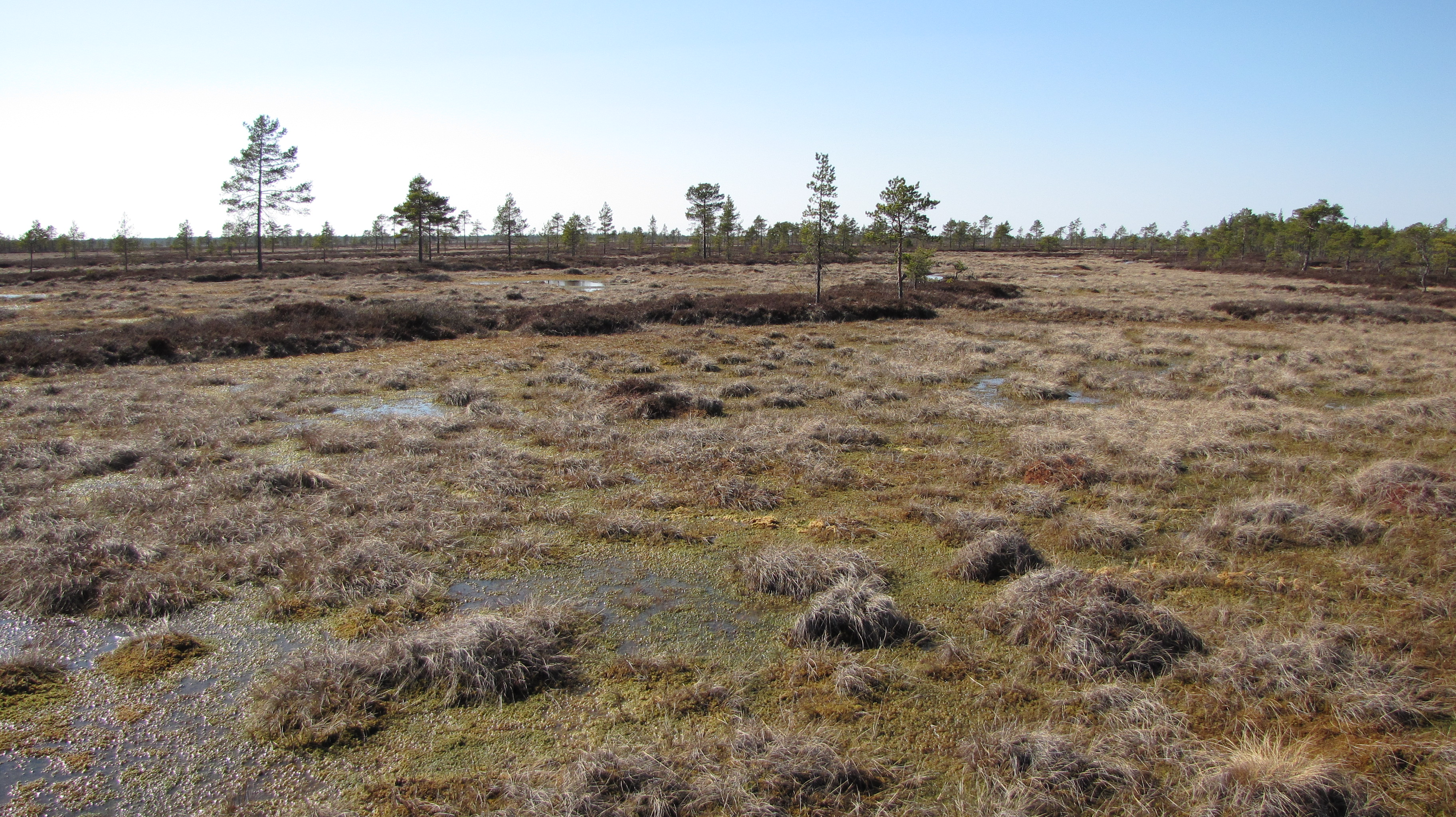 Part of the Kauhaneva mire, one of the biggest mires in the southern half of Finland and a very significant nesting site for many bird species (especially cranes), is protected in the Kauhaneva–Pohjankangas National Park in the municipality of Kauhajoki, Southern Ostrobotnia.